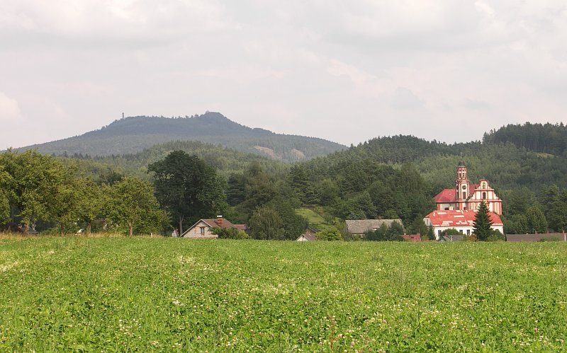 Mařenice, Lusatian Mountains, Czech Republic